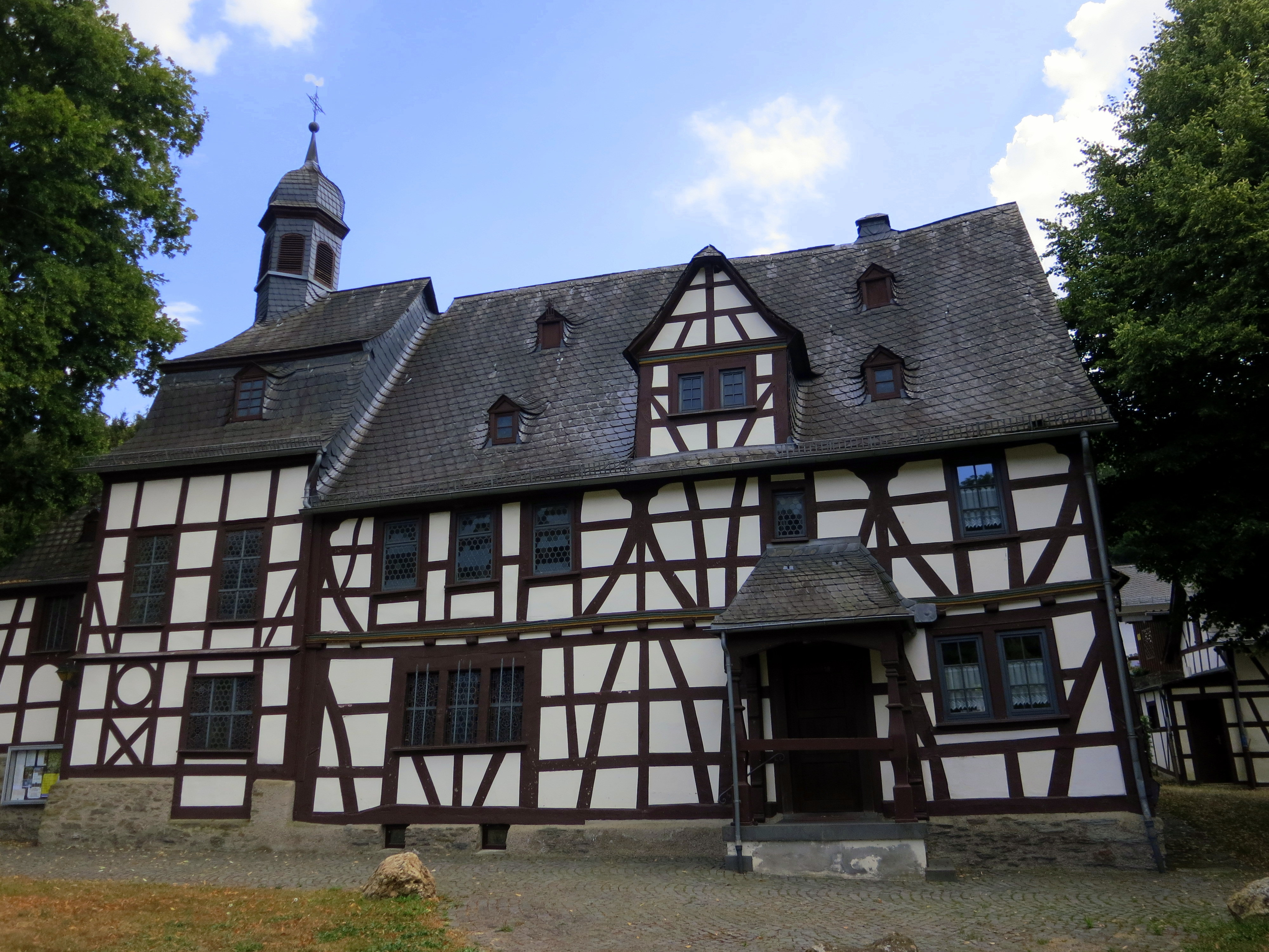 St. Josef Kirche Daisbach (Aarbergen).